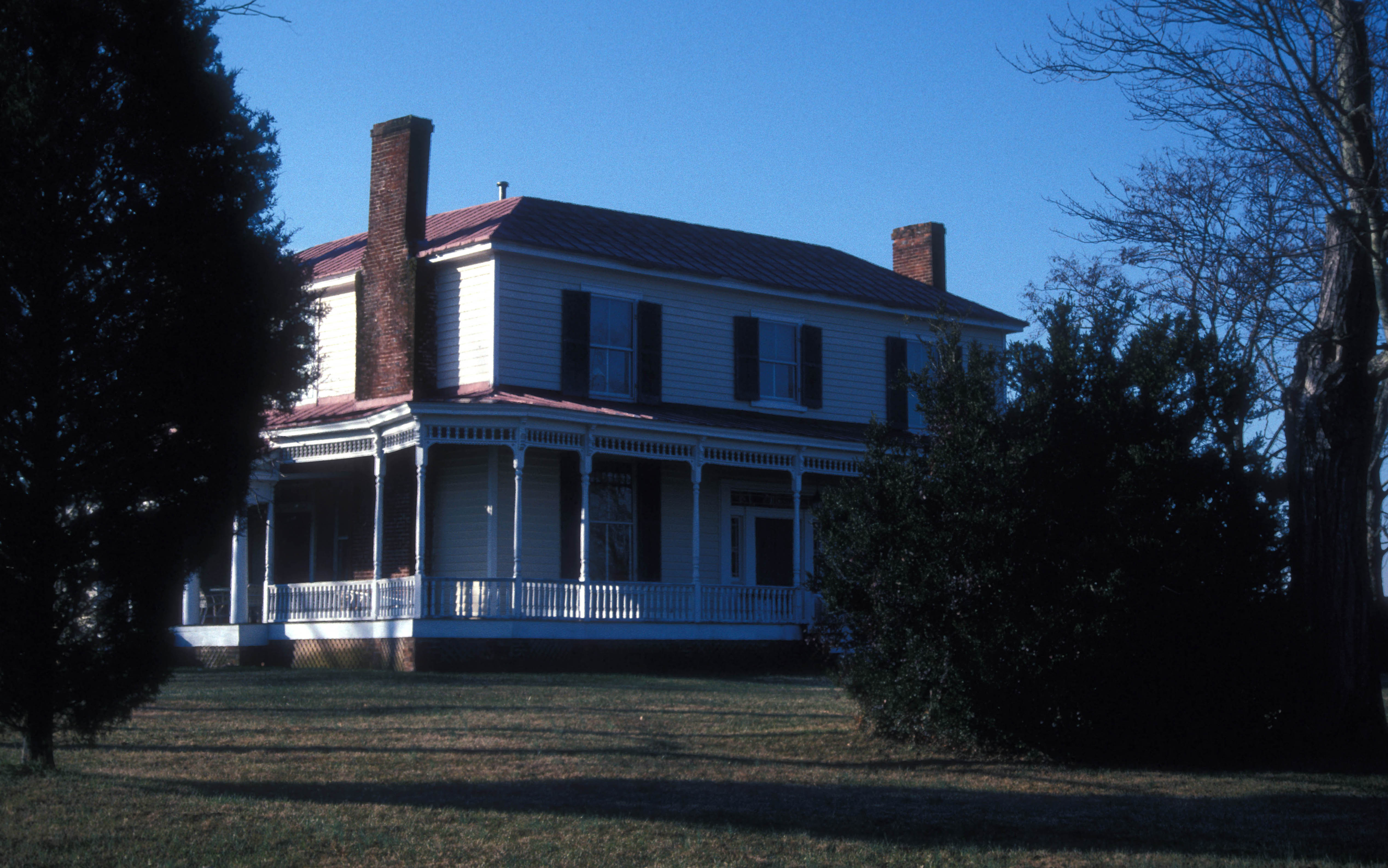 CIRCA 1810 FRAME & GREEK REVIVAL WITH ADDED EASTLAKE ELEMENTS; CONGRESSMAN AND POLITICAL LEADER WHO DIED AT THE AGE OF 42